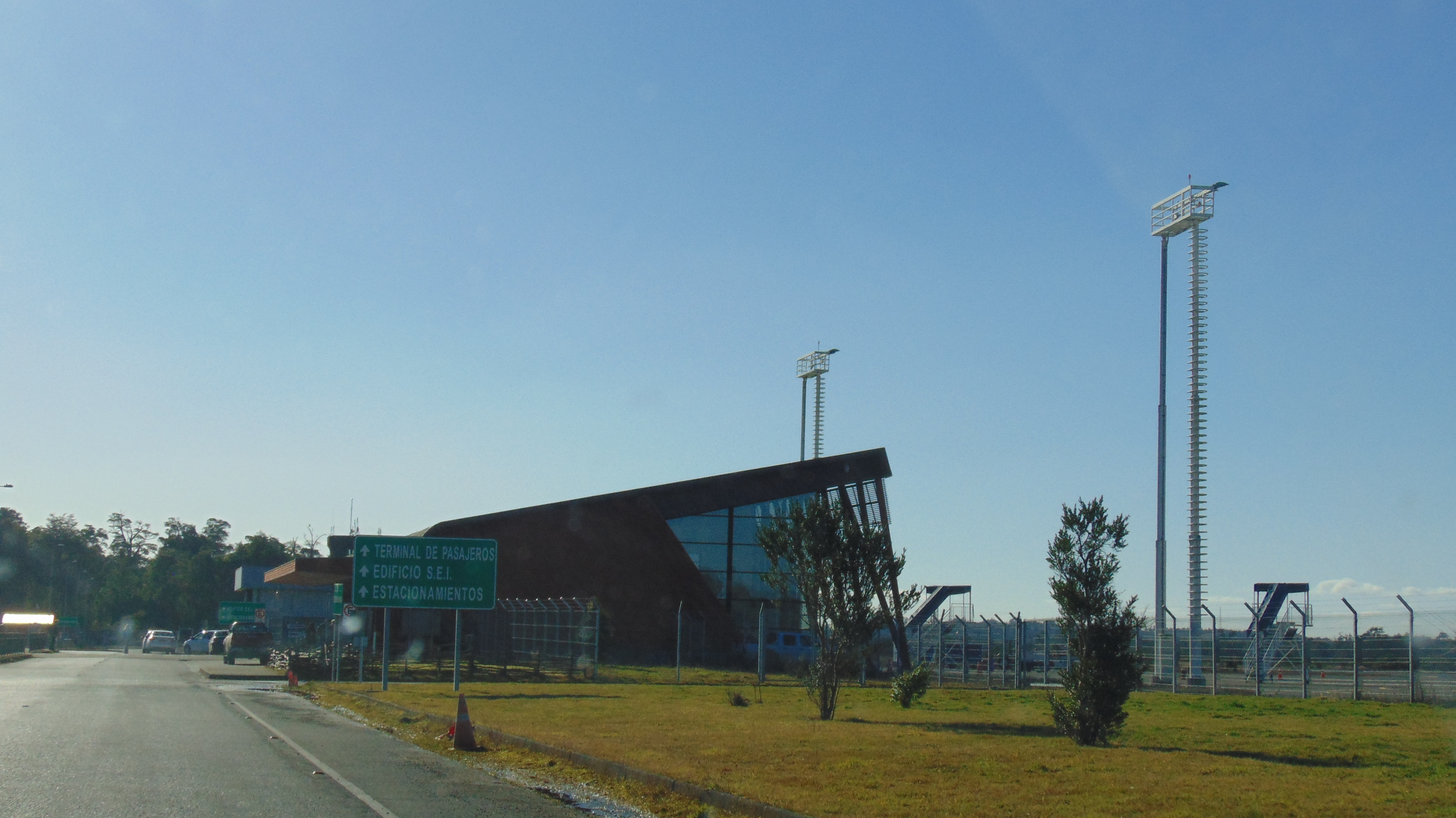 Mocopulli Airfield from vehicles access. June 2018